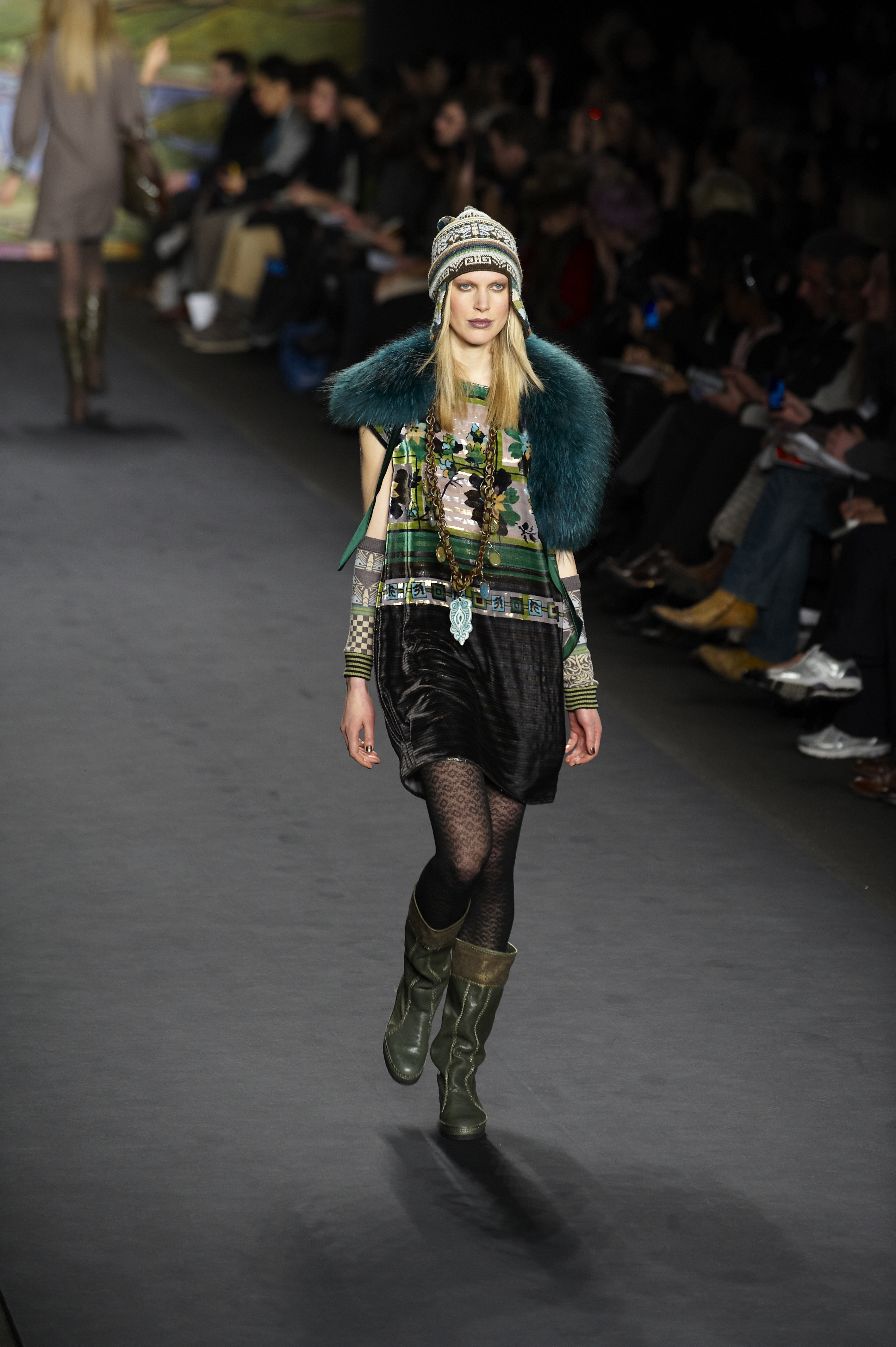 A model walks the runway at the Anna Sui Fall/Winter 2010 show at New York Fashion Week, February 2010.